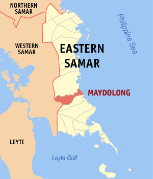 Map of Eastern Samar showing the location of Maydolong